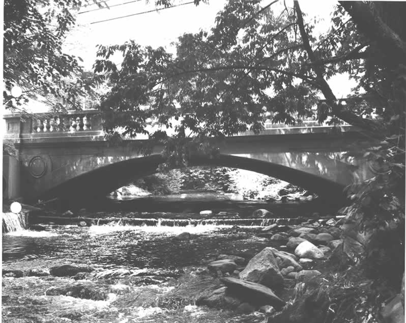 Side of the Bridge in Bangor Borough, which carries Pennsylvania Street over Martins Creek in Bangor, Pennsylvania, United States. Built in 1915, this concrete deck arch bridge is listed on the National Register of Historic Places.